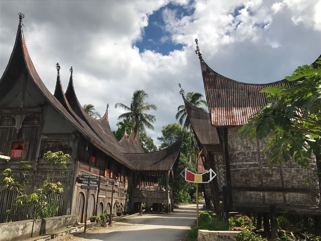 Saribu Rumah Gadang